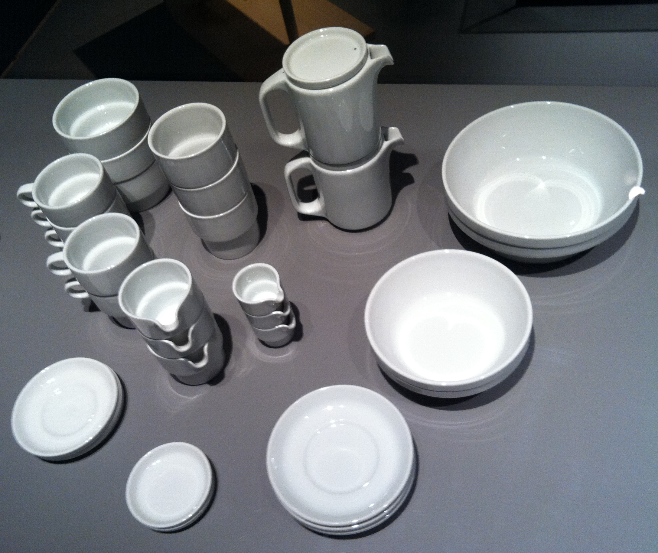 Systems design- The Ulm school. Exhibit at Disseny Hub Barcelona- DHUB HFG Hans (nick) Roericht- TC100